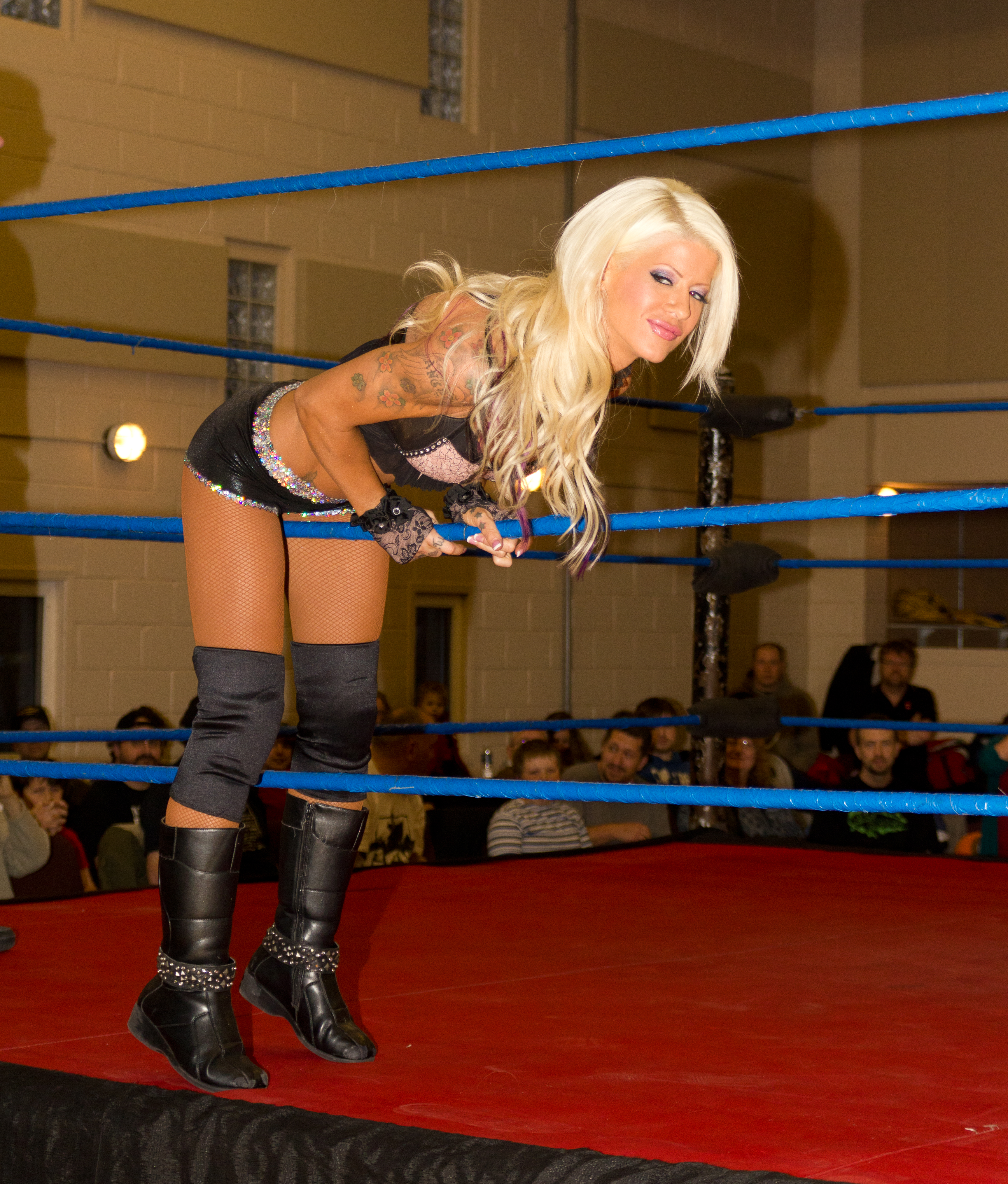 Angelina Love making her ring entrance at the GCW "Seasons Beatings" show